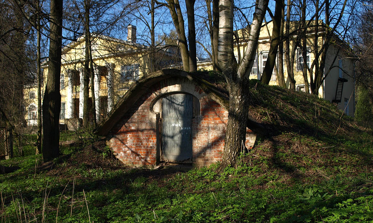 Vinogradovo Estate, Severny district of Moscow. 1912, Ivan Zholtovsky